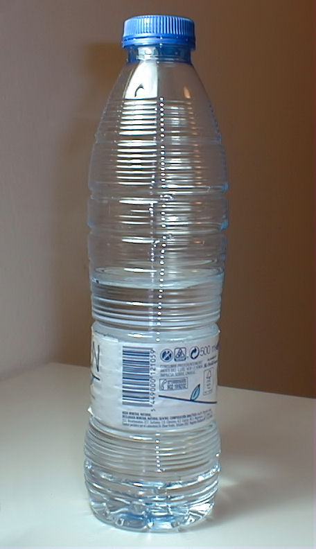 PET (Polyethylene terephthalate)